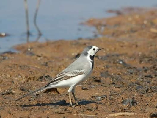 White wagtail